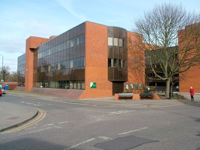 East Herts District Council Offices.